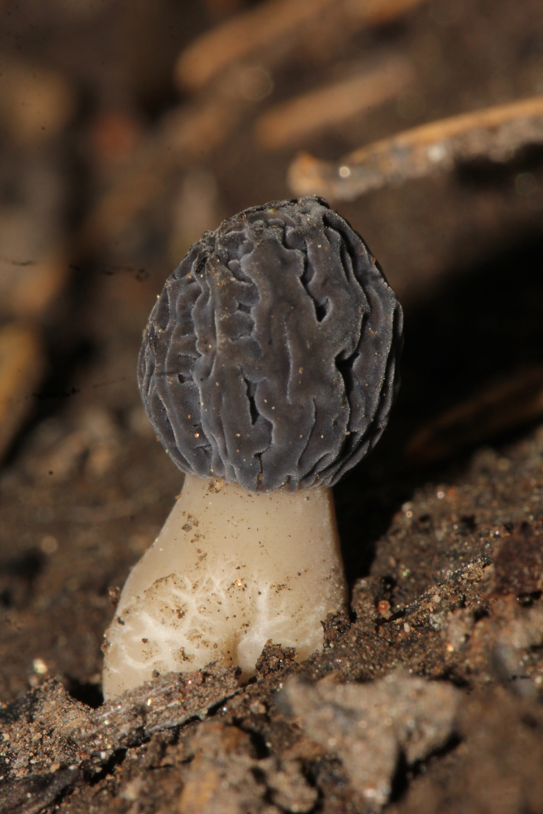 A fruit body of the morel species Morchella sextelata M.Kuo. Photographed in Yosemite National Park, California, USA. "Notes: Growing in an area burned by the rim fire. Thousands of fruit bodies seen, all were near Abies concolor." Species identity verified with DNA sequence comparison.